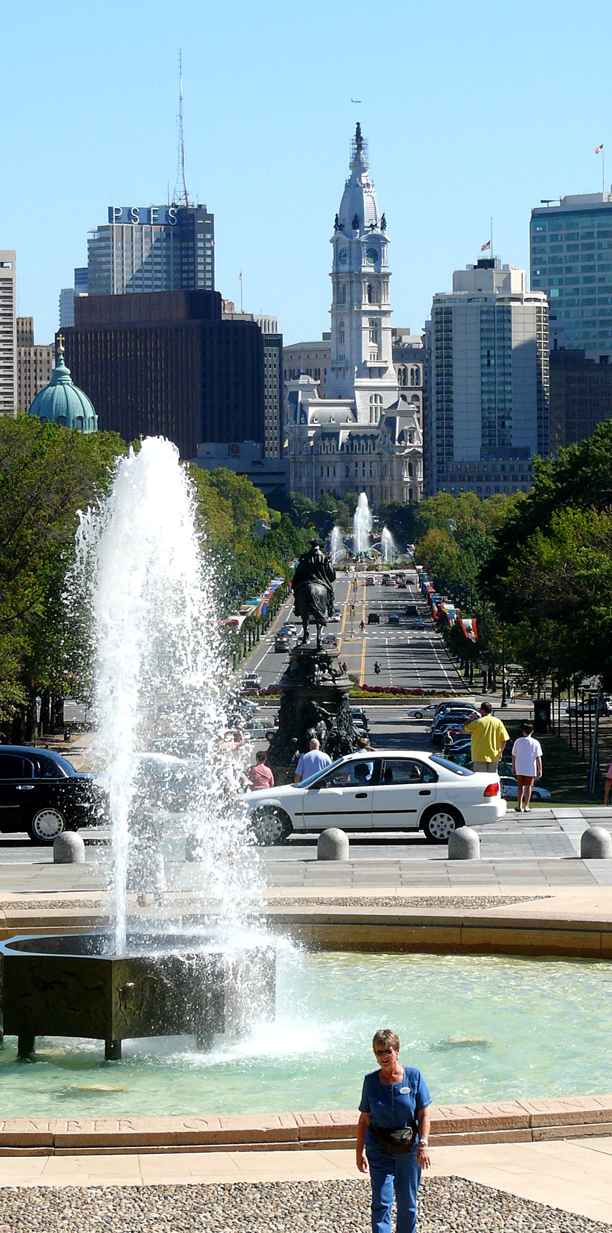 Looking down the length of the Benjamin Franklin Parkway from the top of the steps at the Philadelphia Museum of Art. Looking to the southeast you see the museum's fountain, the The Washington Monument, Swann Memorial Fountain, and finally Philadelphia City Hall anchoring the other end of the parkway. Photo taken with a Panasonic Lumix DMC-FZ50 in Philadelphia, PA, USA.